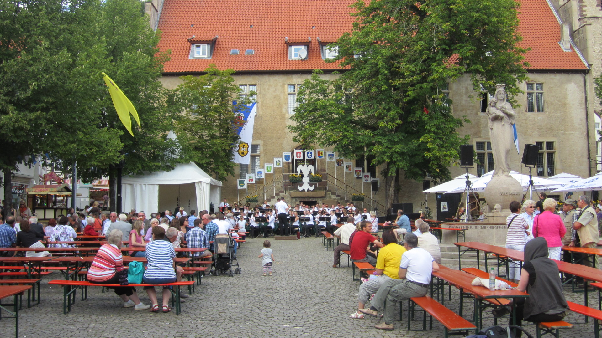 The traditional Kälkenfest (lime festival) in Warburg, Germany.